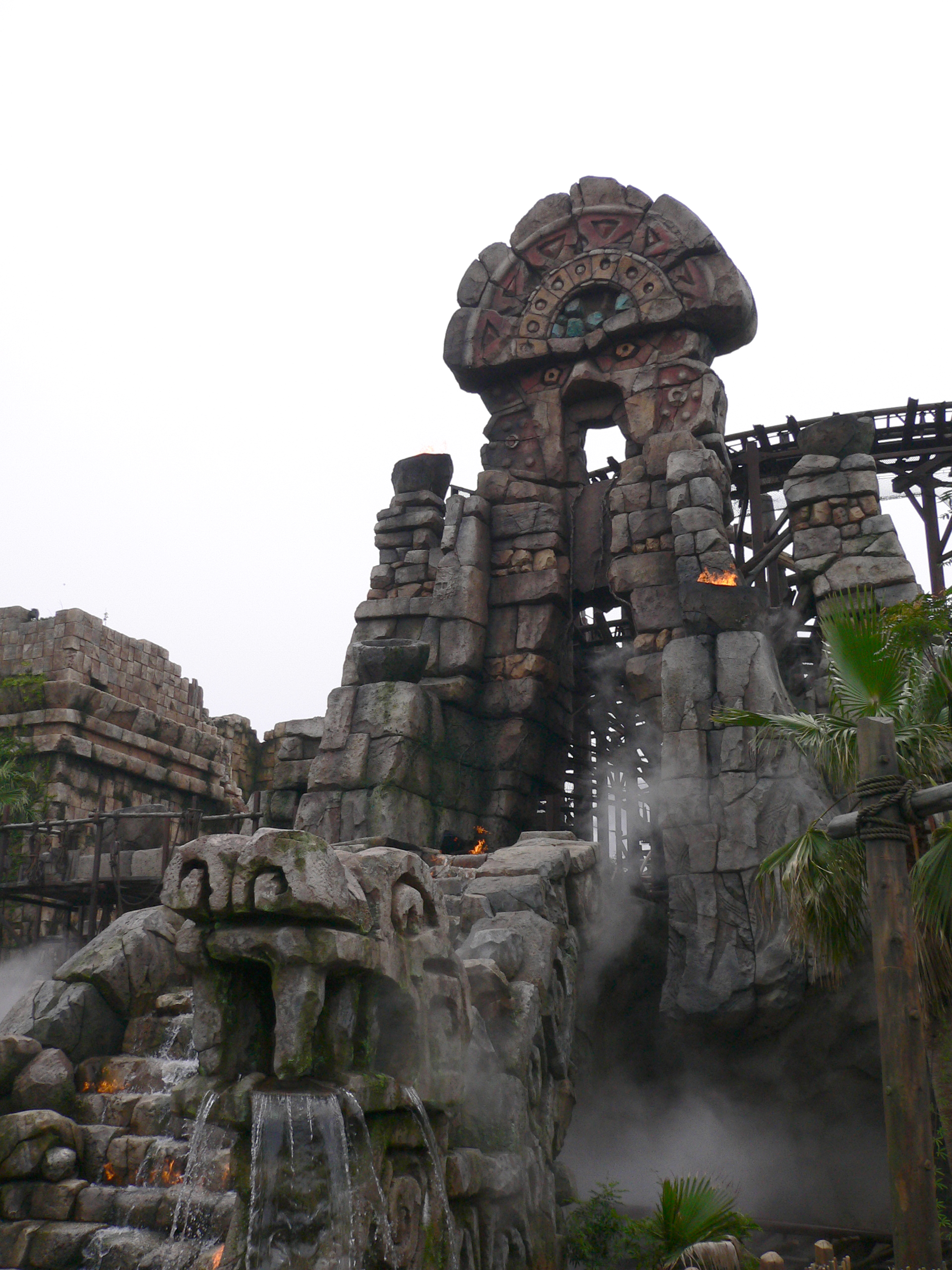 Raging Spirits